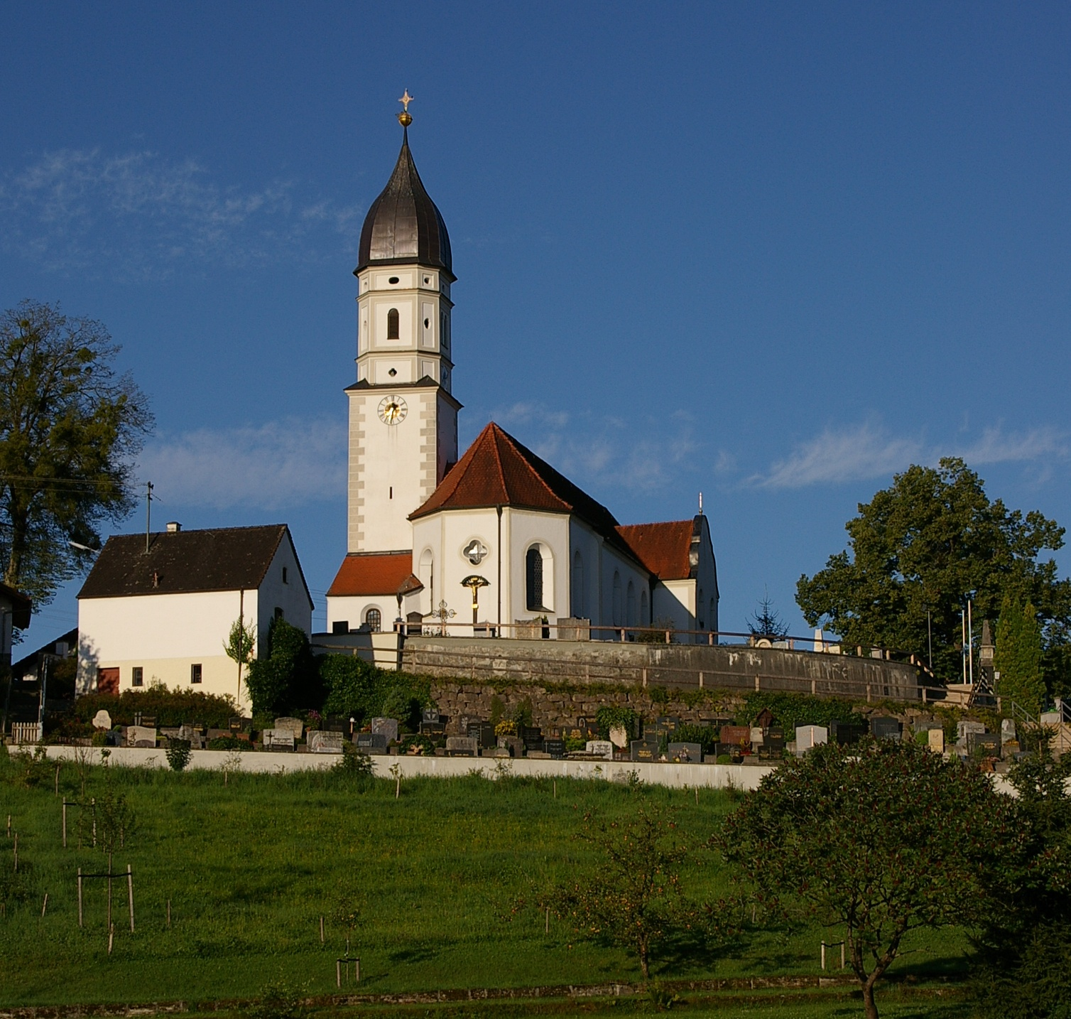 Village church of Oberhausen, Bavaria, Germany. Photo taken in August 2011